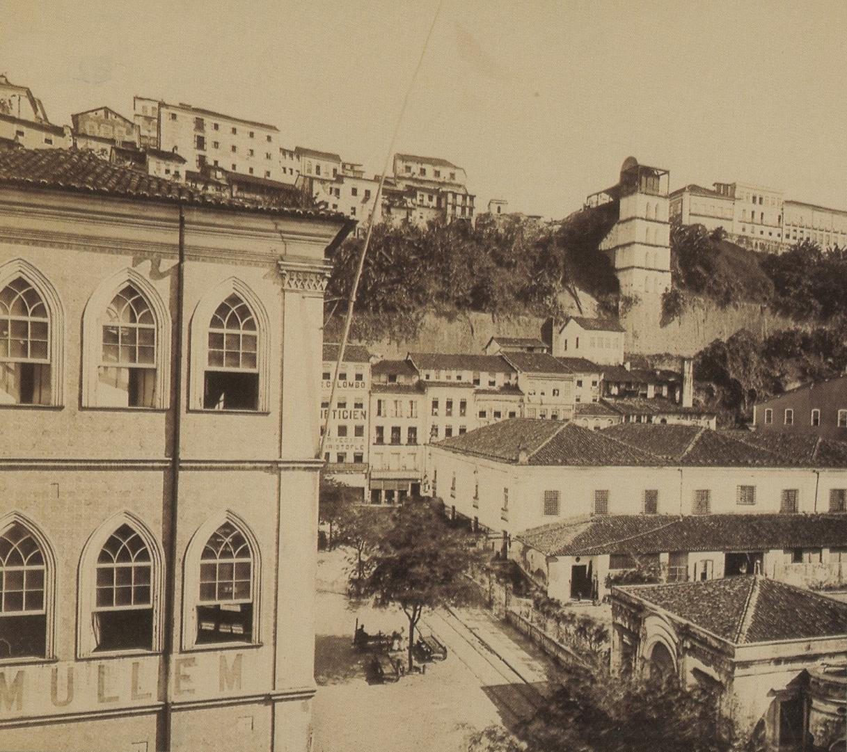 Salvador, province of Bahia, 1875.